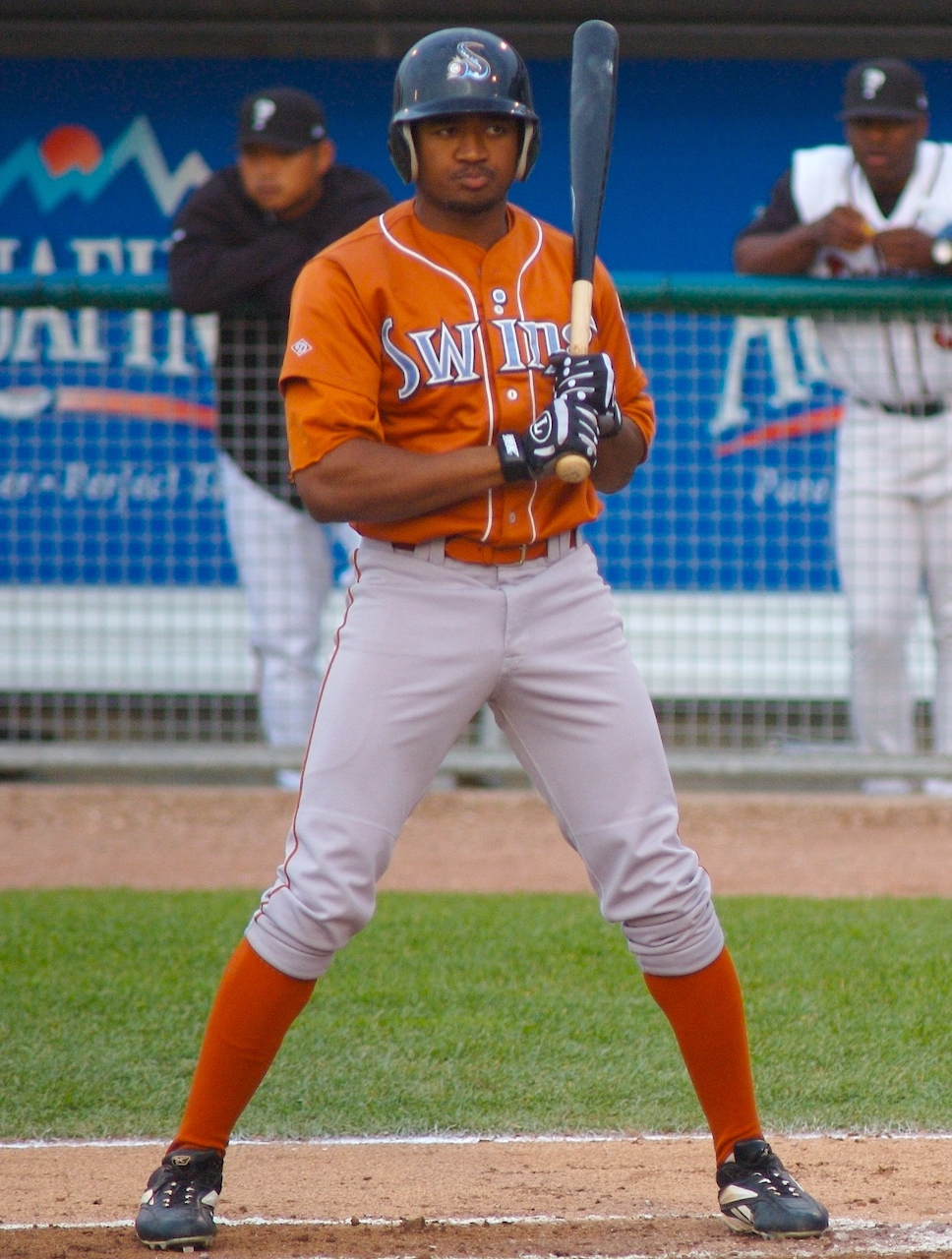 Daryl Jones at bad for the Swing of the Quad Cities during a 2007 game against the Lansing Lugnuts in Lansing, Michigan